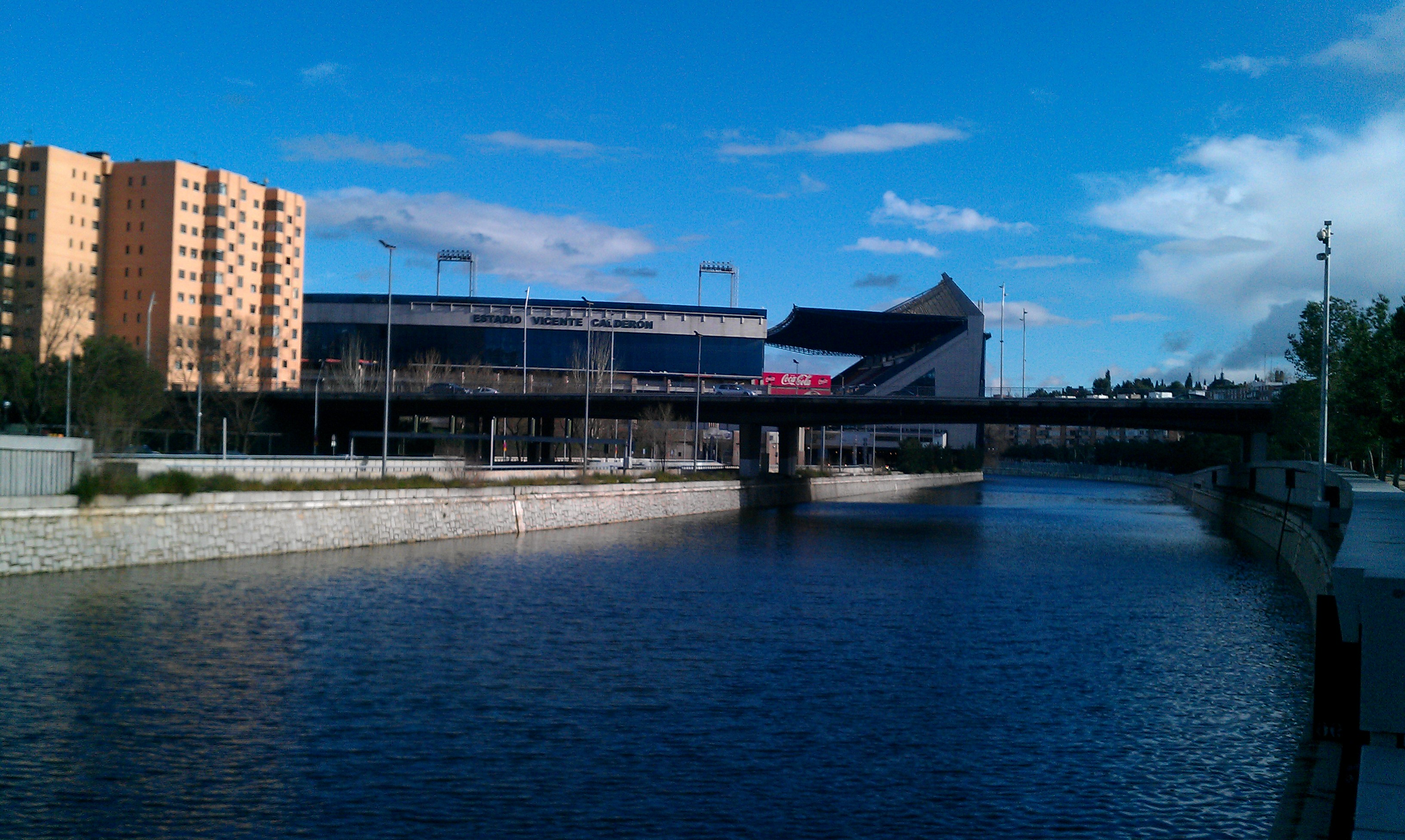 Estadio Vicente Calderon , Madrid.